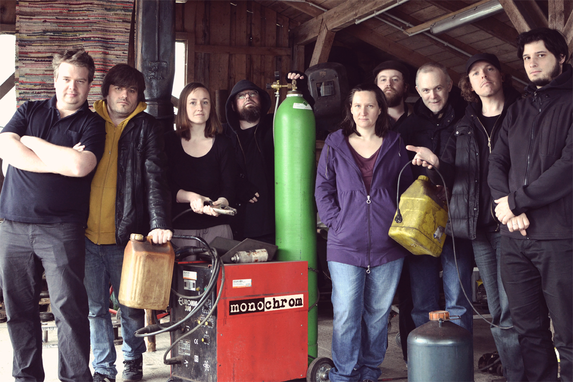 All members of monochrom, 2012. Left to right: Harald Homolka-List, Frank Apunkt Schneider, Anika Kronberger, Günther Friesinger, Evelyn Fürlinger, Roland Gratzer, Franz Ablinger, Johannes Grenzfurthner and Daniel Fabry.